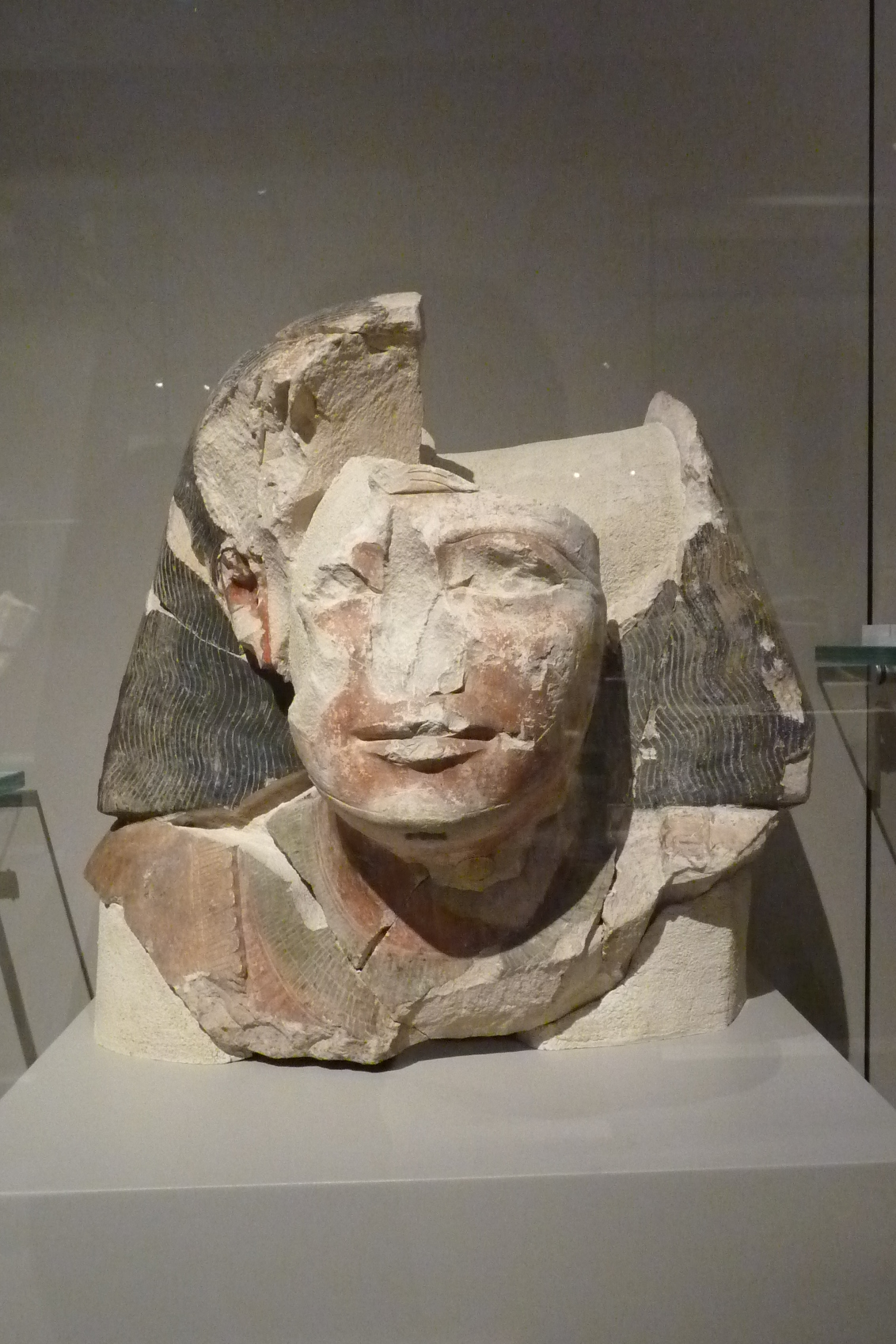 Large limestone statue head of an ancient Egyptian nomarch, found in the tomb of the mid-12th Dynasty nomarch Ibu (c.1900-1850 BCE) at Qaw el-Kebir, thus possibly depicting Ibu himself. Museo Egizio, Turin, S.4410-4414.